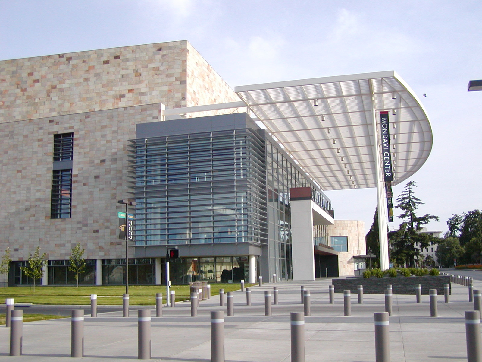 Mondavi Center for the Performing Arts, on the campus of the University of California, Davis The Mondavi Center offers a wide variety of world-class touring artists and speakers to UC Davis and the surrounding communities. These events include classical, jazz and folk concerts, theater, dance and comedy presentations and lectures. In addition to the regular season of performing arts, Mondavi Center also offers an Arts Education program that provides opportunities for audience members to learn more about an artist outside of the performance setting. Most outreach activities are free.